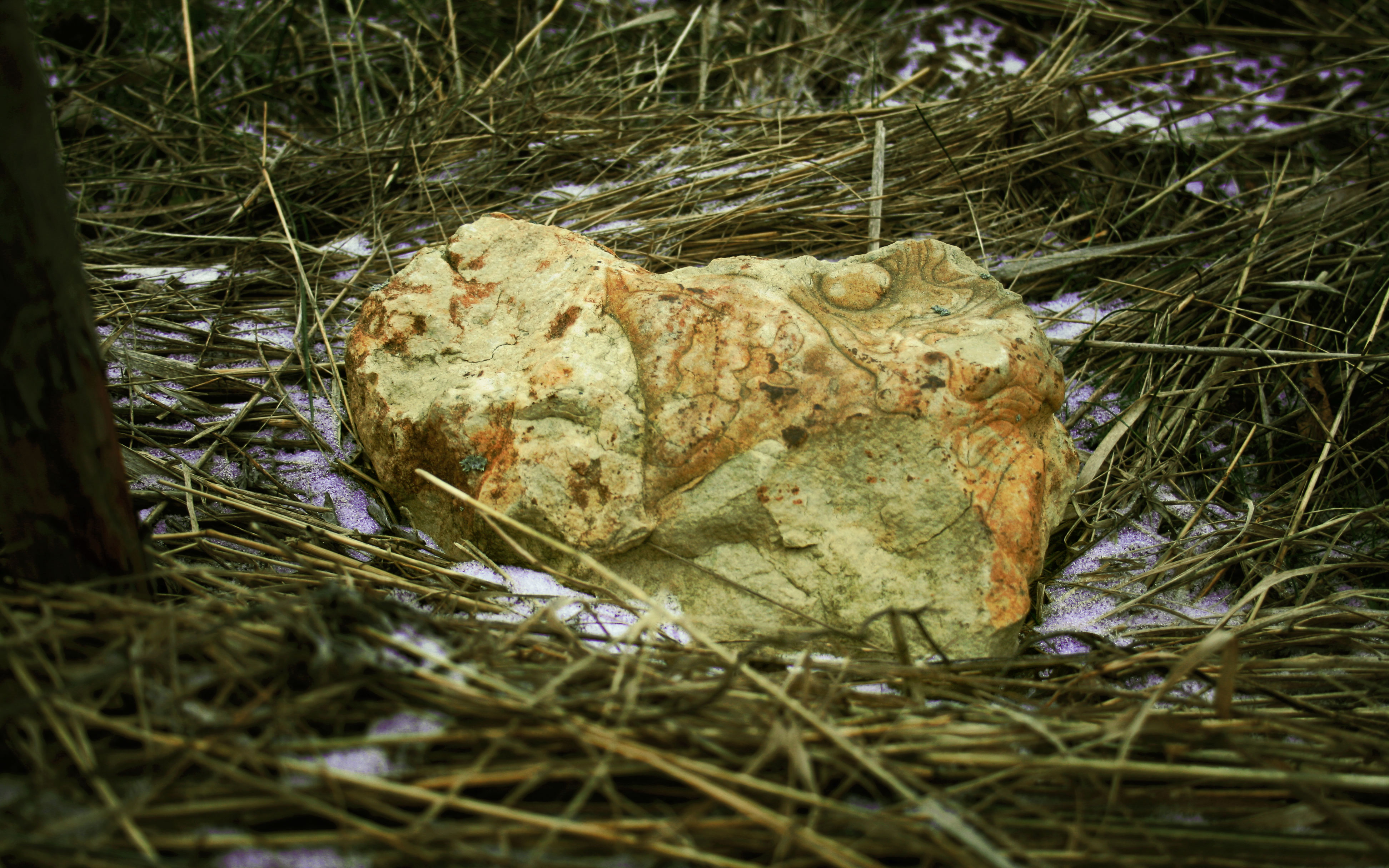 Wolstonian Stage, stone. Belgorod Oblast, Russia.